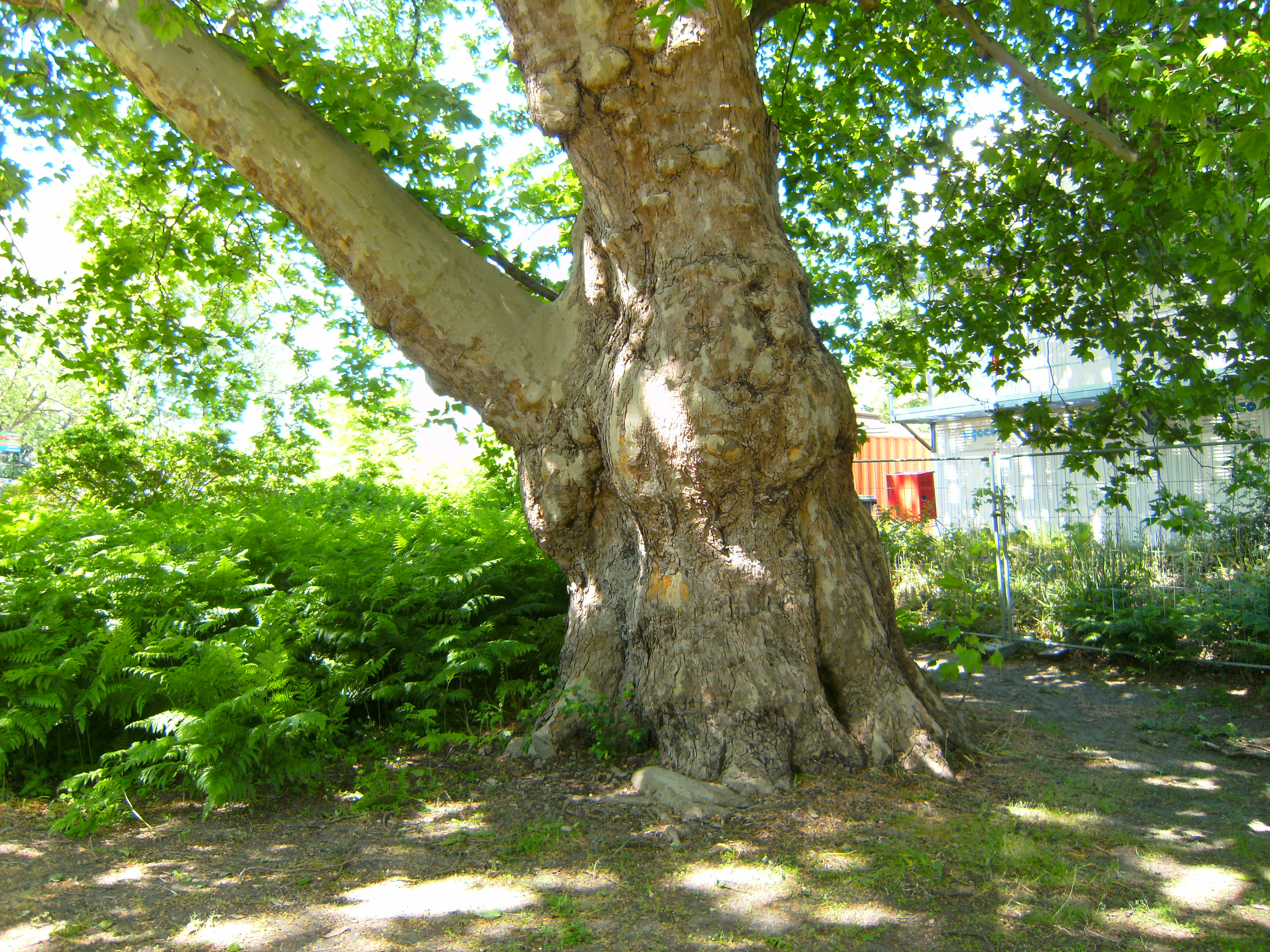 Hamburg, Germany, Planten un Blomen: Plane tree from 1821 in the part of Alter Botanischer Garten (old botanical garden). Location between Tropical house and Congress Center.